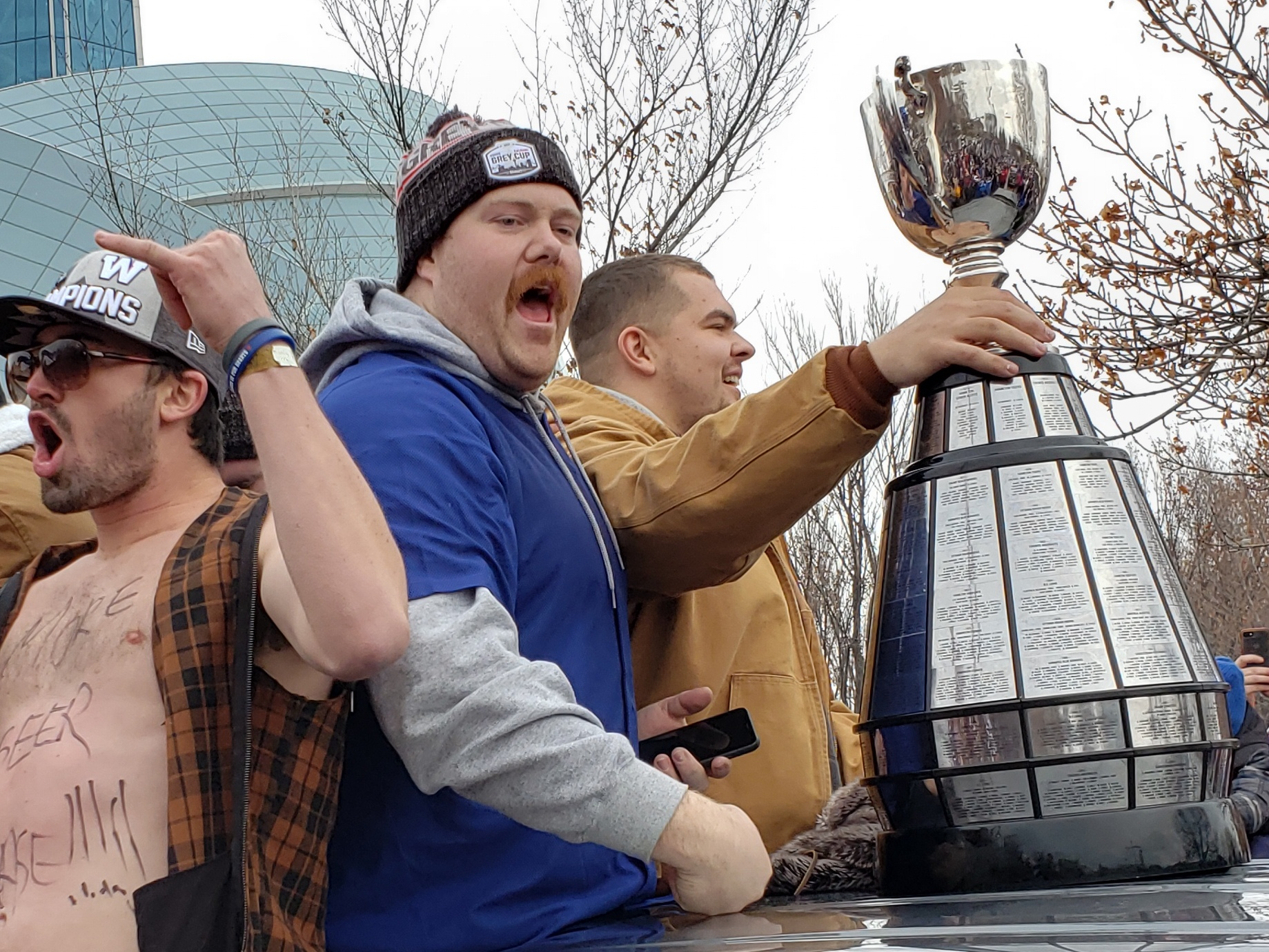 Blue Bombers Players with the Grey Cup during their championship parade in Winnipeg.